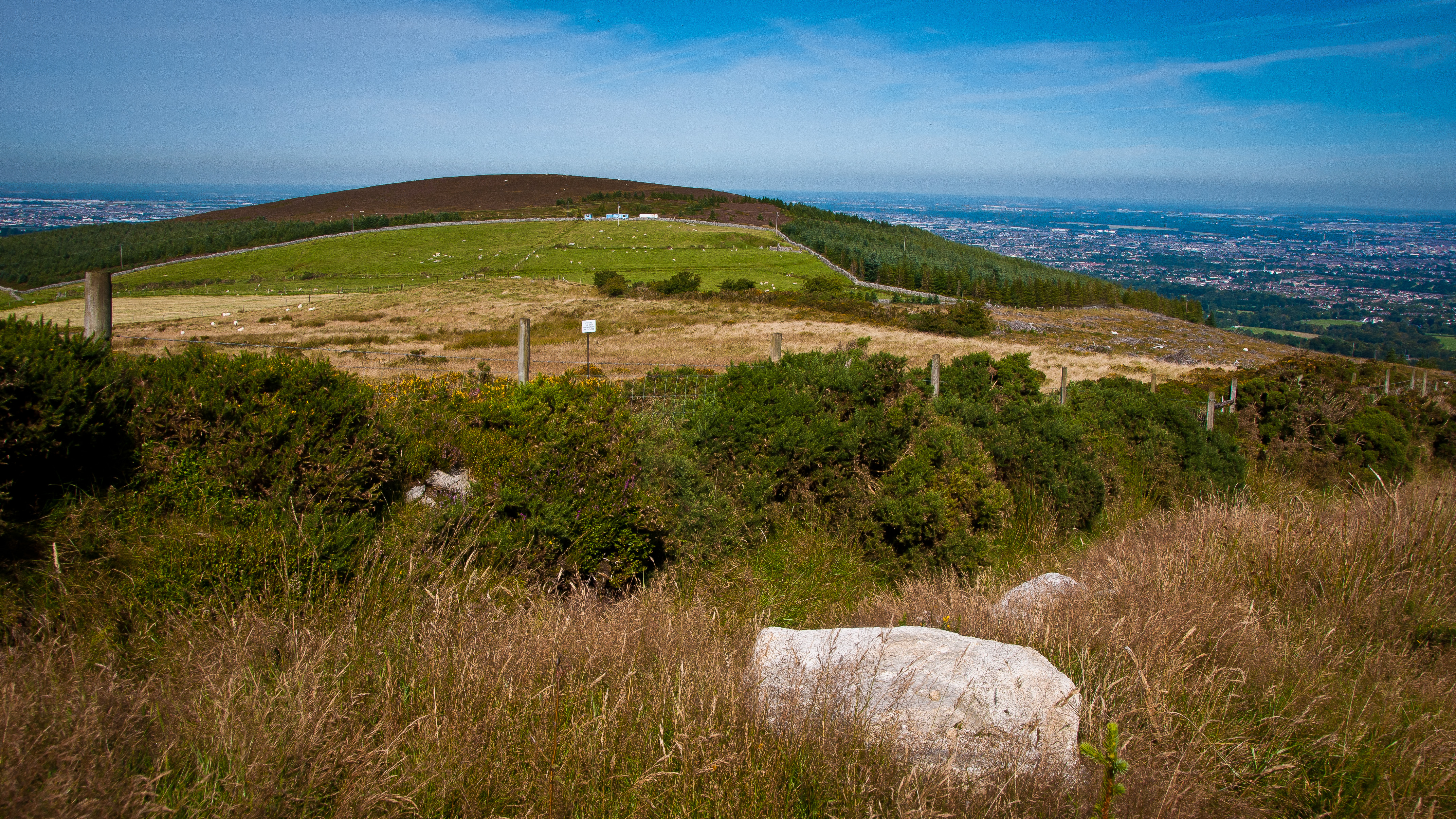 View of Kilmashogue Mountain, Dublin Mountains, County Dublin, Ireland from the southeast.